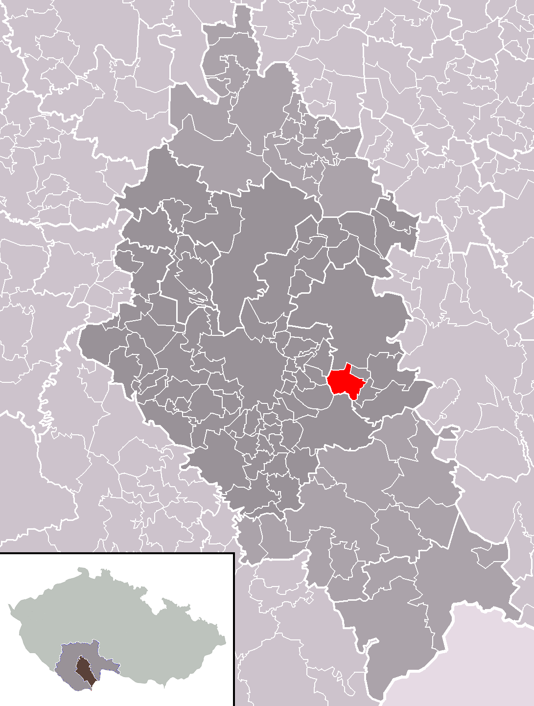 Location of Zvíkov municipality within České Budějovice District and administrative area of České Budějovice as a Municipality with Extended Competence.